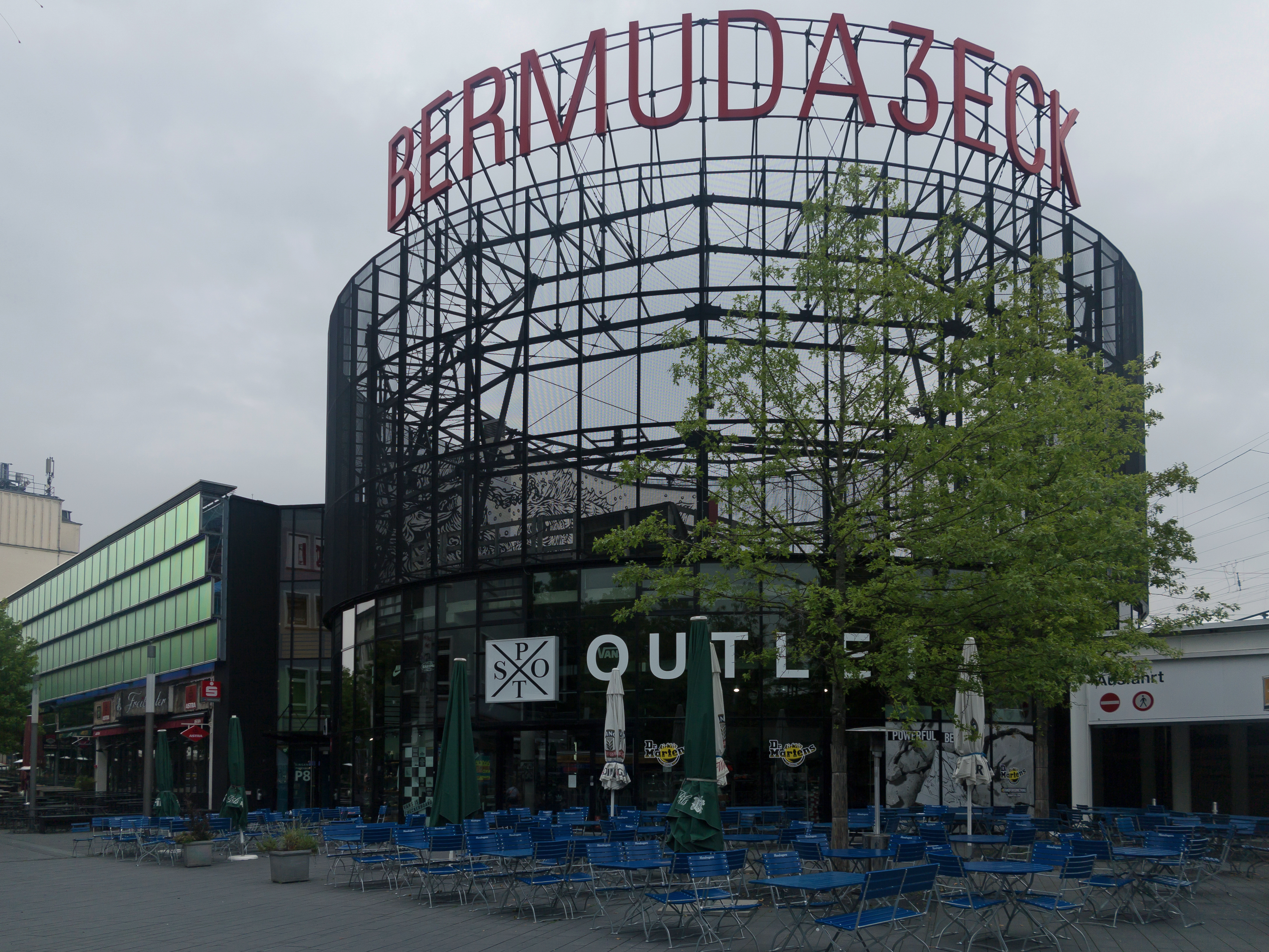 Bochum-Mitte, an area with a high density of bars and restaurants: Bermuda3eck